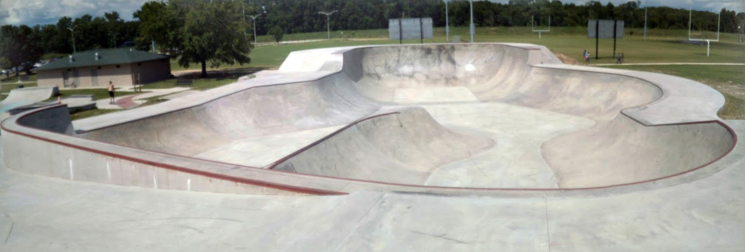 The concrete skate bowl at Central City Skatepark in Macon, GA